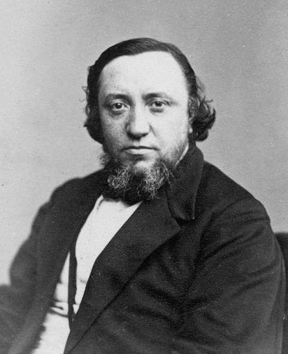 Picture of Benjamin Ward Richardson, albumen carte-de-visite, late 1860s-1870s